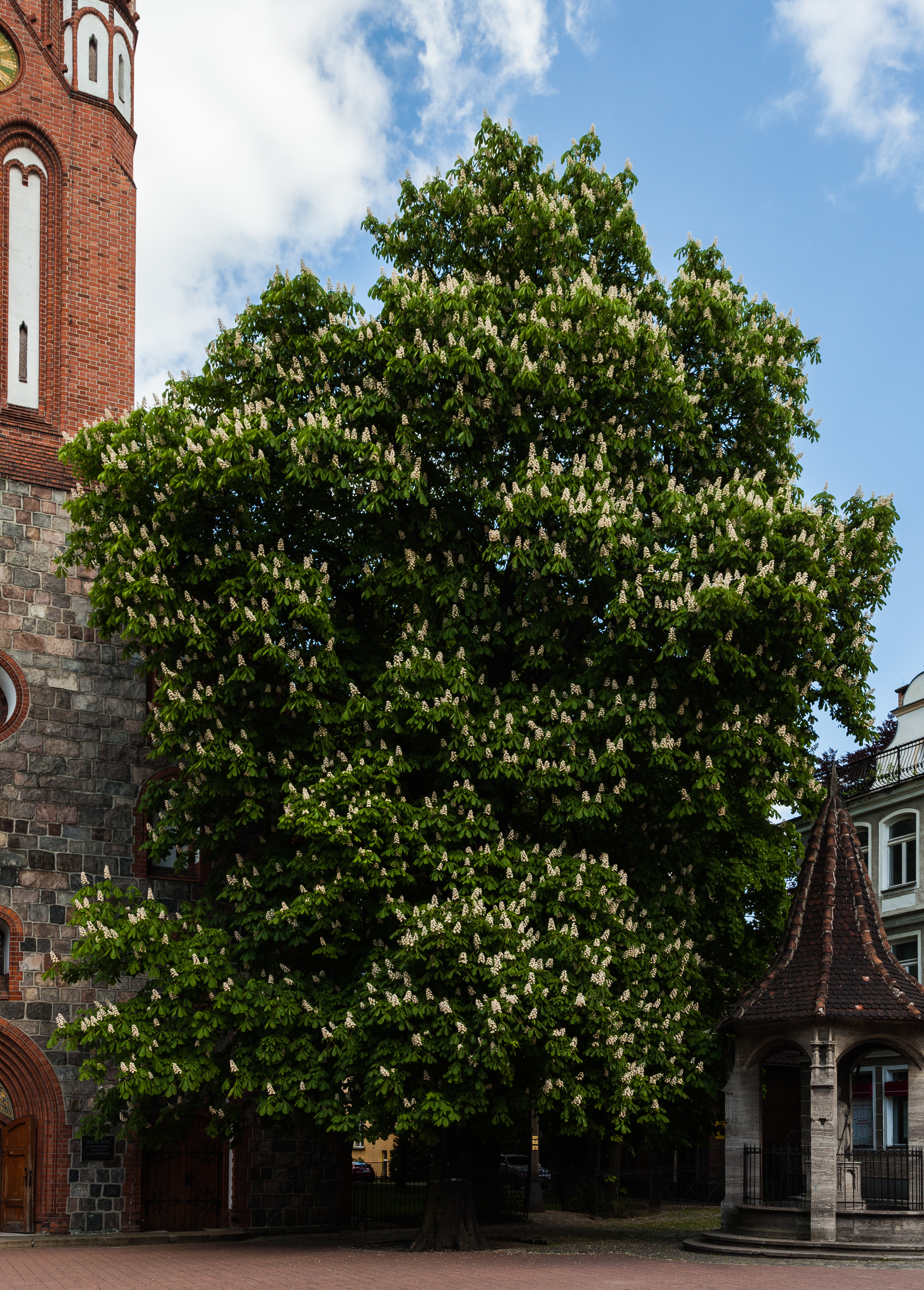 Horse-chestnut (Aesculus hippocastanum), Sopot, Poland